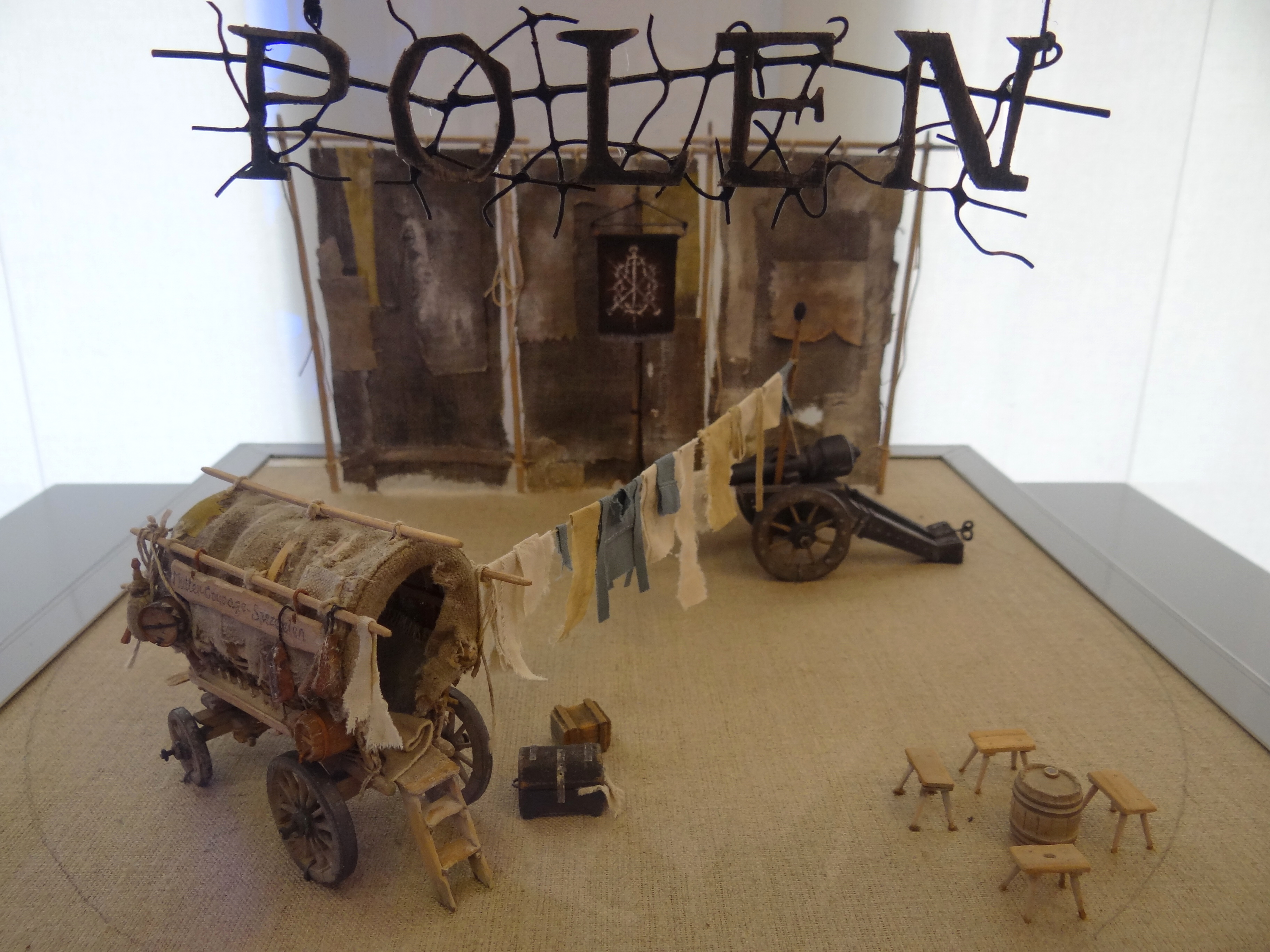 Model of Stage Design for Mother Courage - Bert-Brecht-Haus - Augsburg - Germany